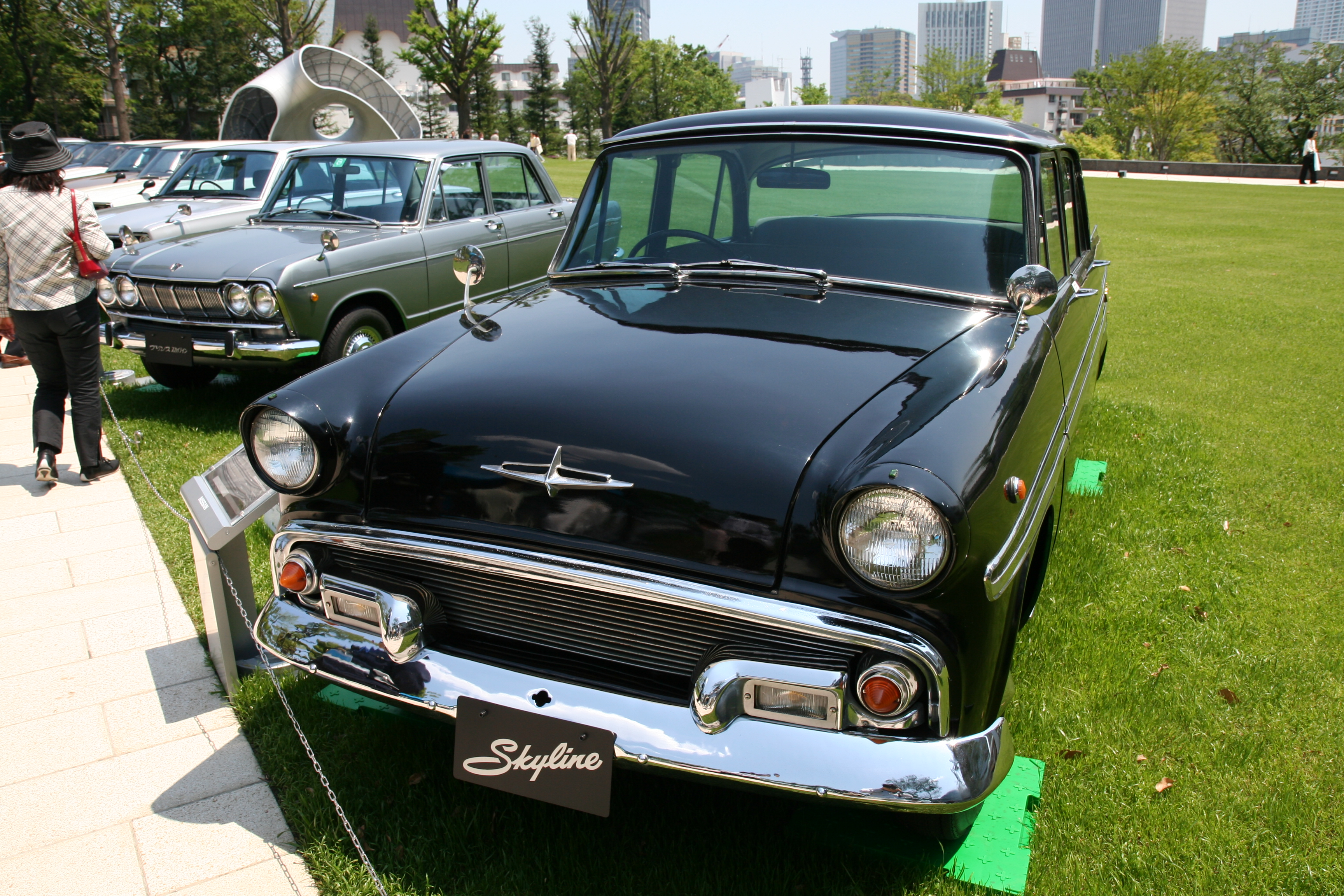 Prince Skyline ALSID-1